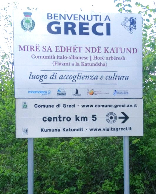 Tourist road sign near Greci, Italy